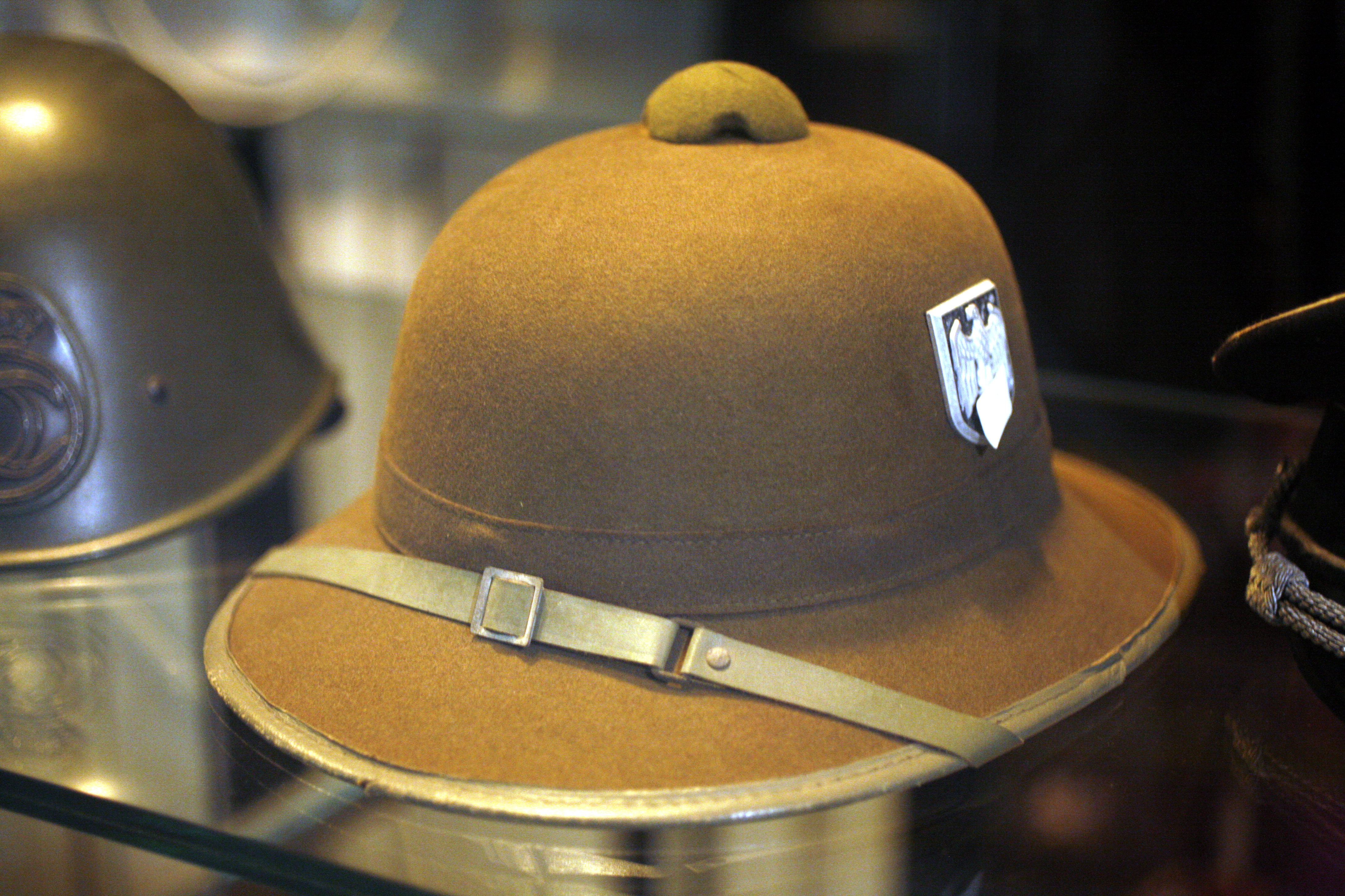 German Pith Helmet from the Second World War